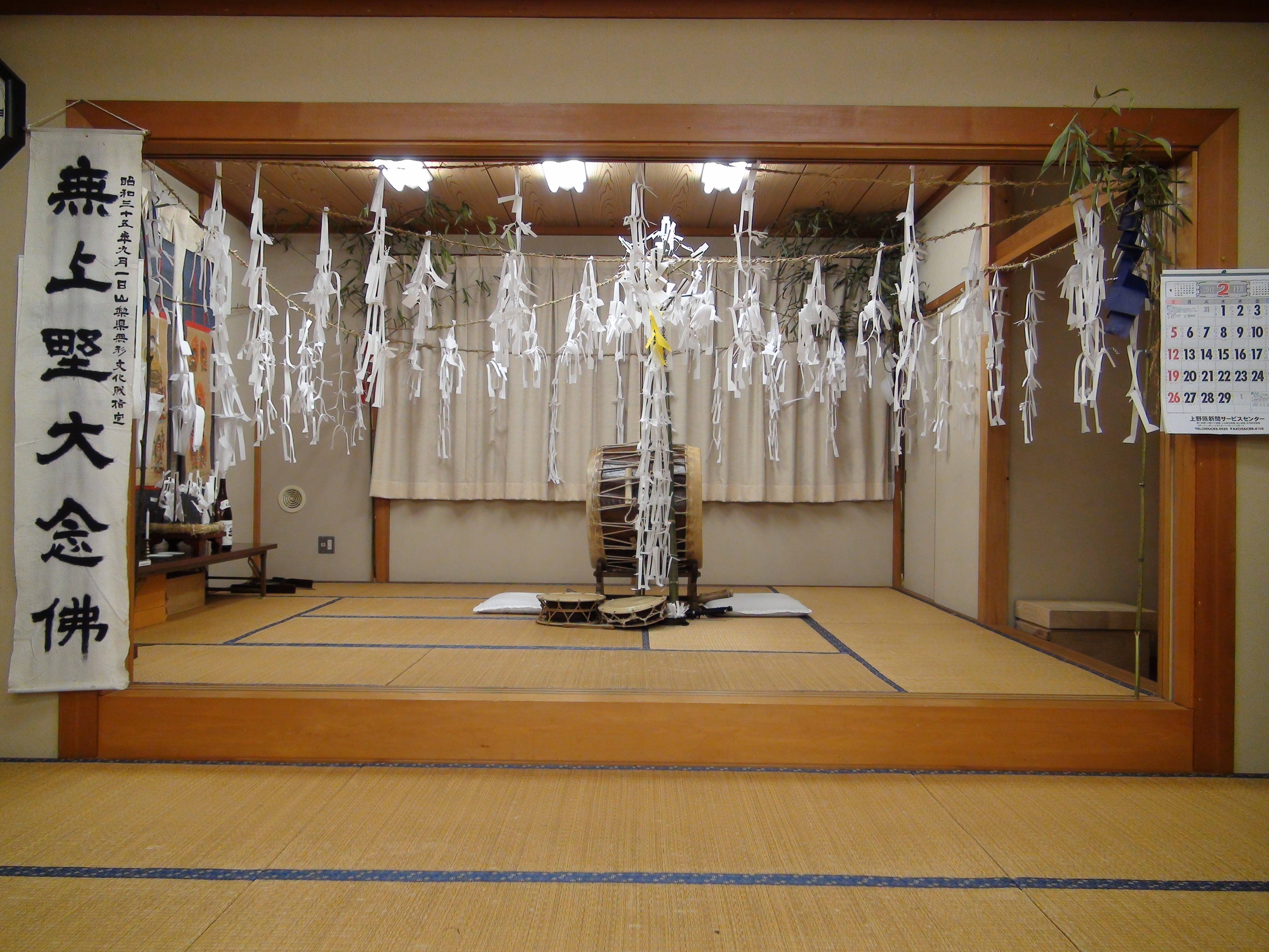 Mushono-Dainembutsu dance ritual space